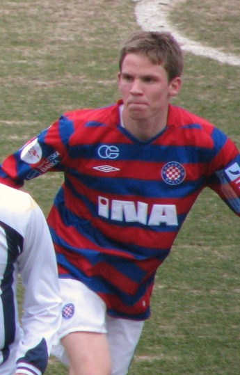 Marin Tomasov